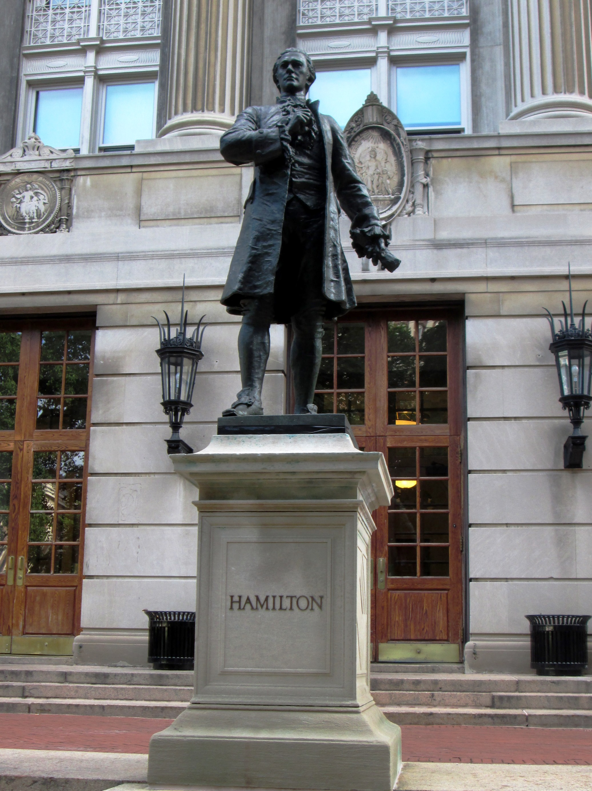 The statue of Alexander Hamilton by William Ordway Partridge stands outside the entrance to Hamilton Hall on the Morningside Heights campus of Columbia University.